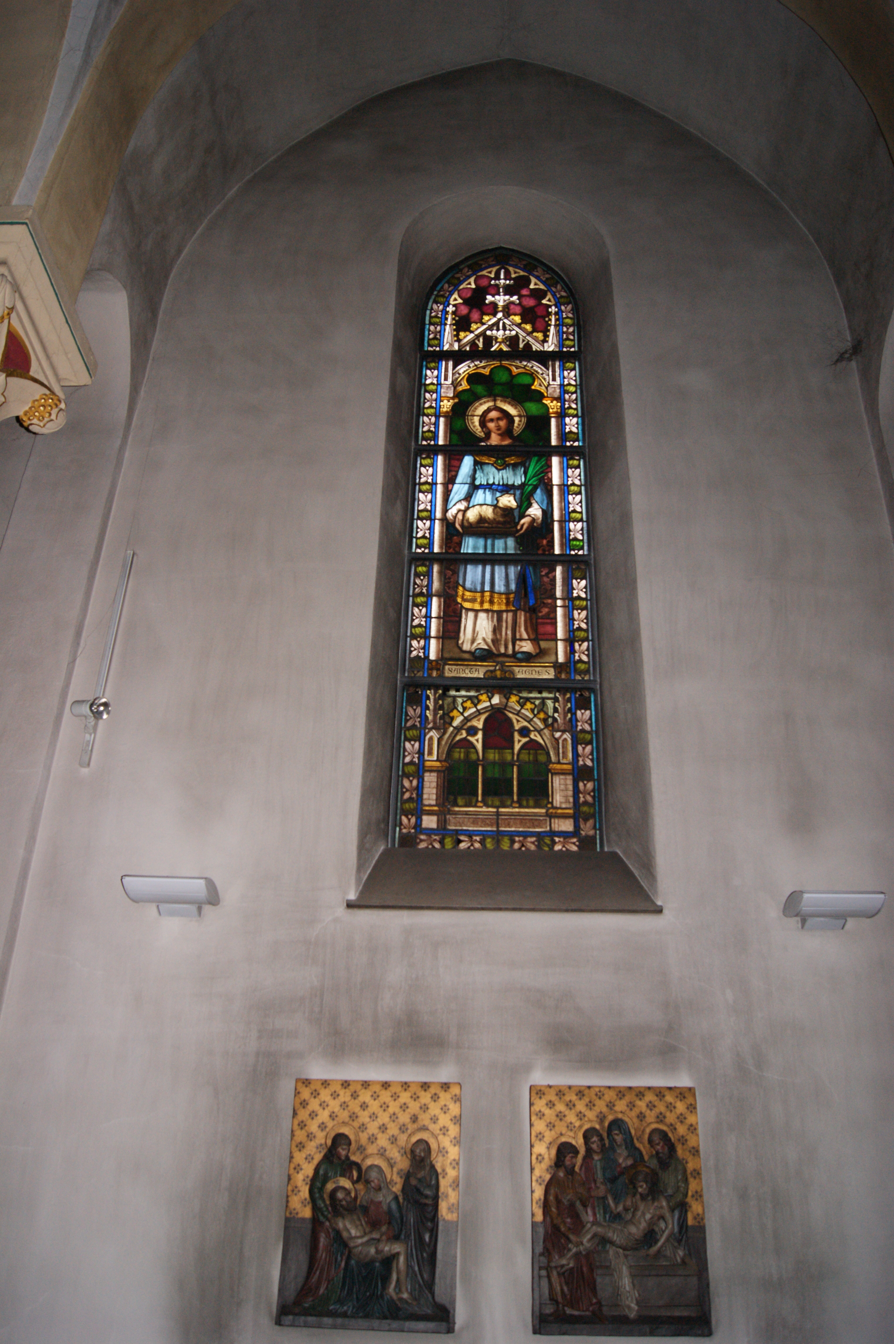 Church of St. Hubert (Église Saint-Hubert) in Luxembourg-Dommeldange in the Rue du Château. Built 1891. Stations of the Cross and stained glass window depicting St. Agnes.